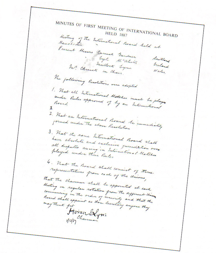 Minutes of the first official International Rugby Board meeting.